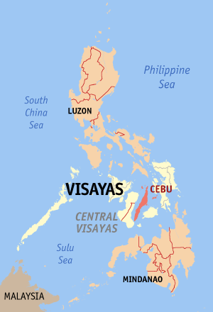 Map of the Philippines showing the location of Cebu